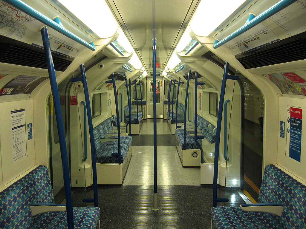 2009 tube stock interior, taken at Brixton station, 30th June 2011.